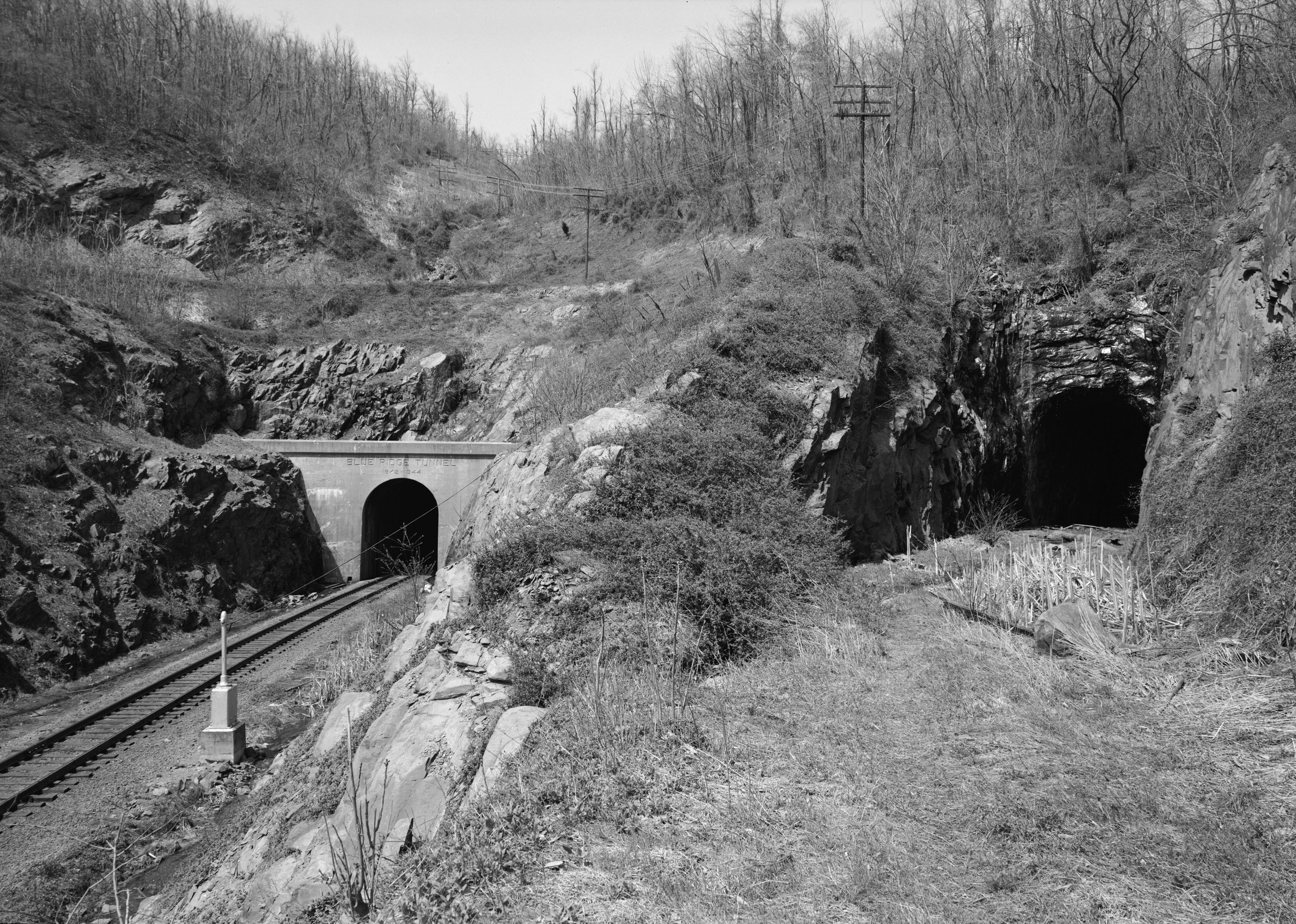 View of the new Blue Ridge Tunnel (left) and old Blue Ridge Tunnel (right) on the Chesapeake & Ohio Railway. Located near Afton, Virginia.